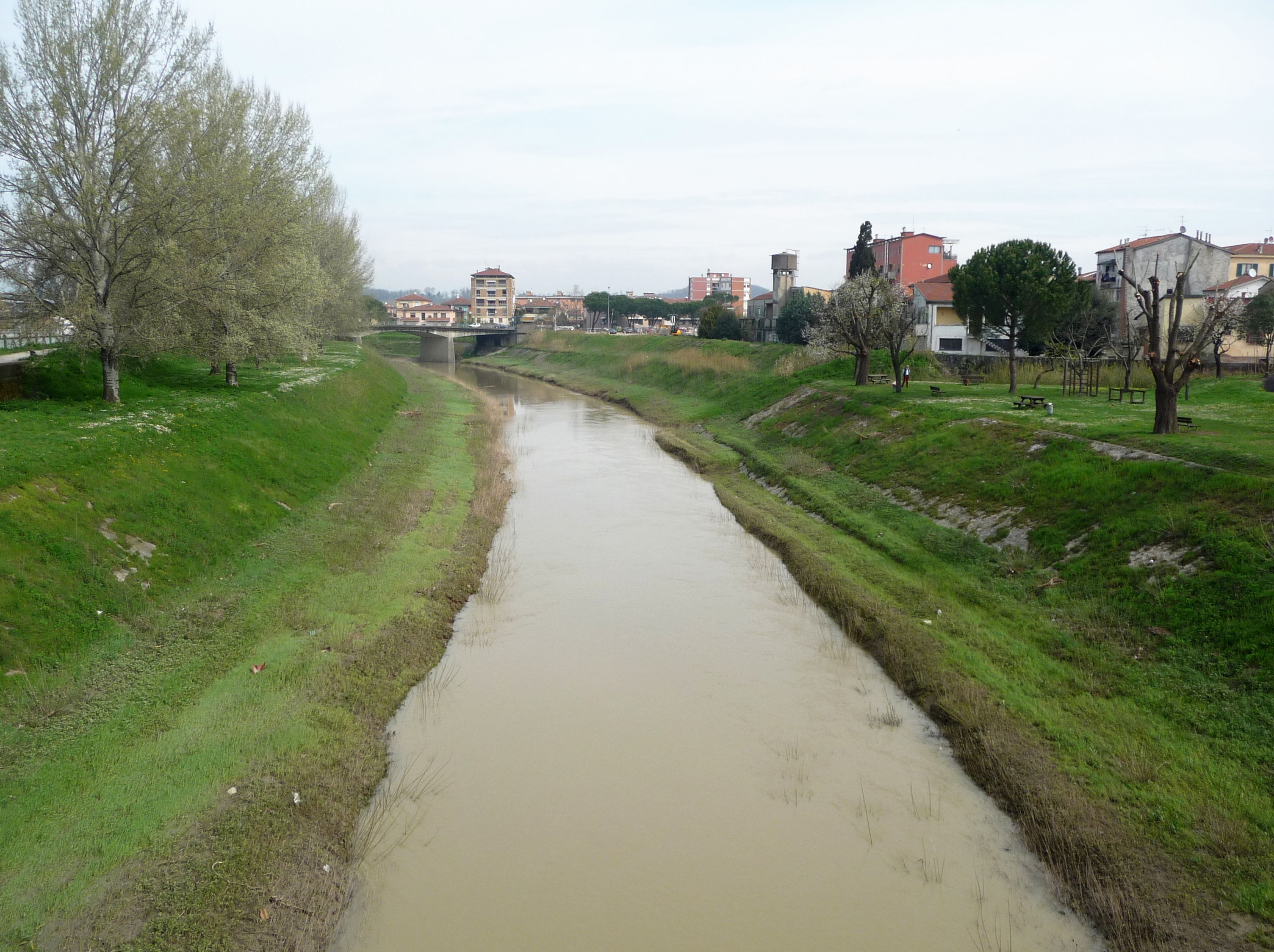 Pontedera, Tuscany, Italy - River Era